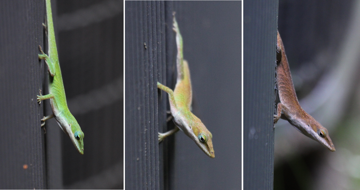 This is a sequence of three photographs of a Carolina anole that changed from its green phase to its brown phase over the course of a few minutes. Seen in Savannah, GA on Apr. 7, 2015.